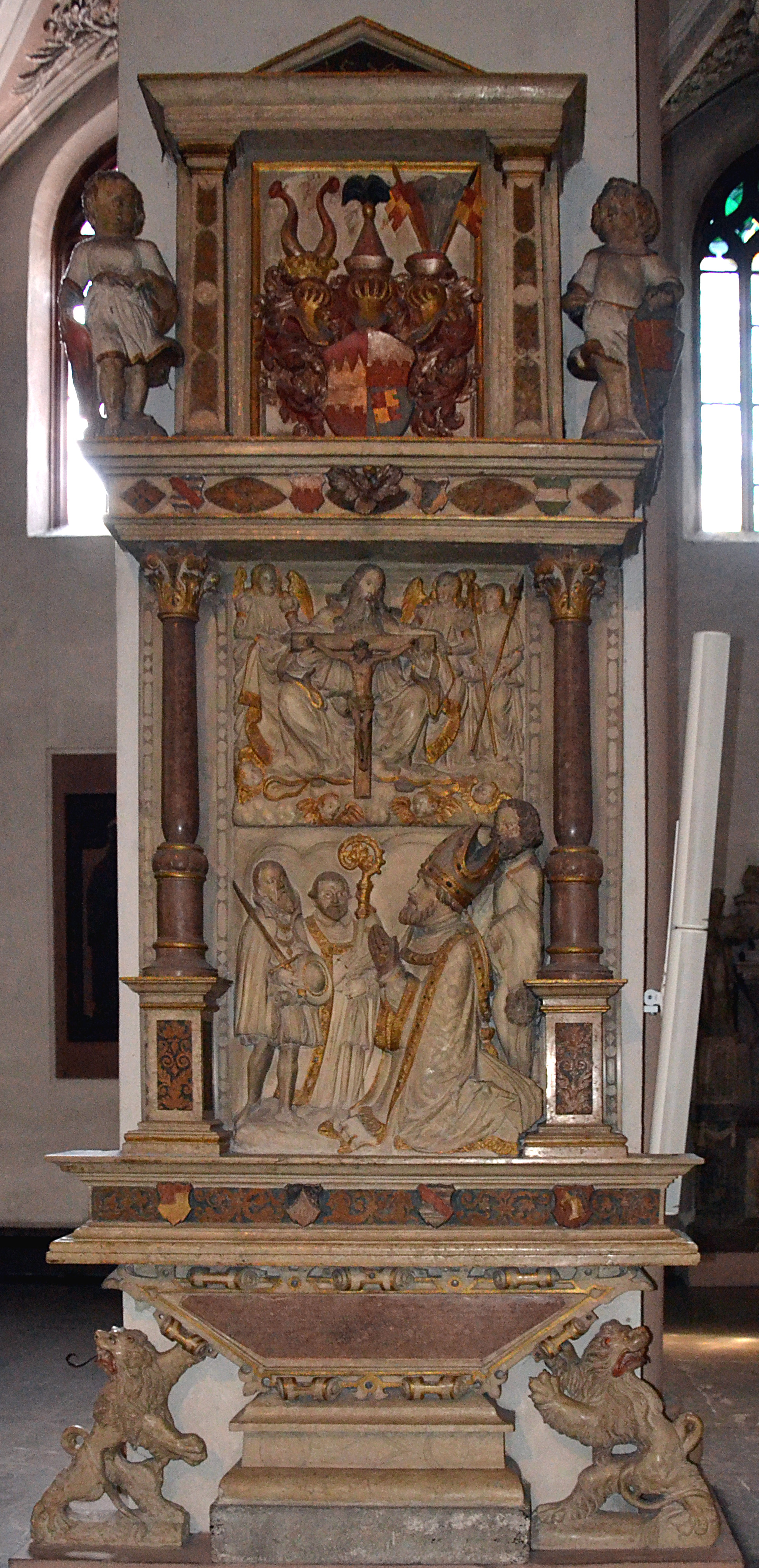 Friedrich von Wirsberg Grave Wurzburg Cathedral